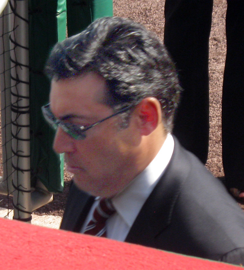 Philadelphia Phillies general manager Ruben Amaro Jr.